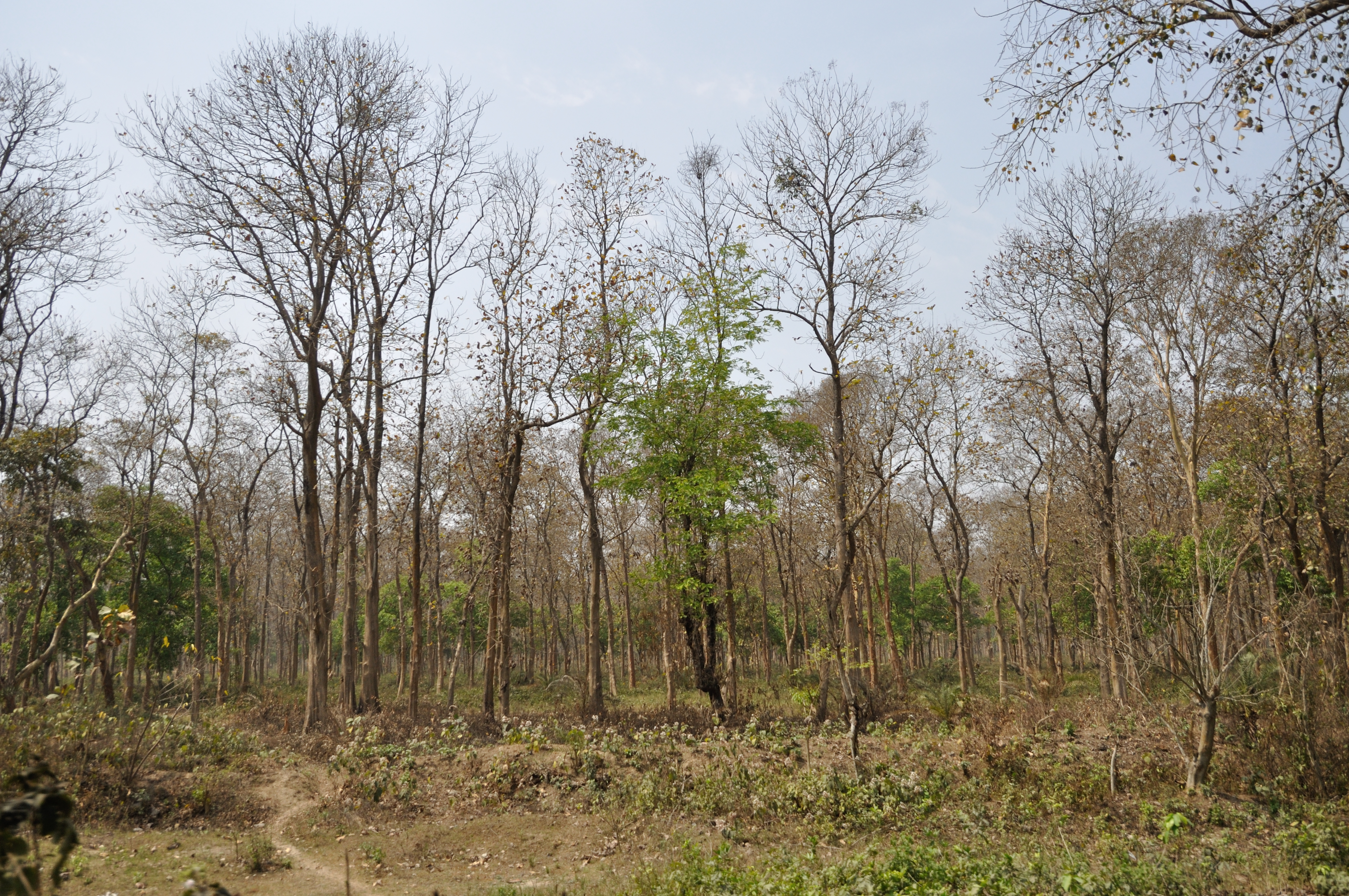 Photographed in West Bengal, India.